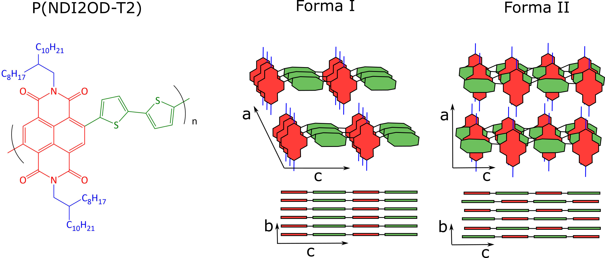 Form I and form II polymorphs of N2200